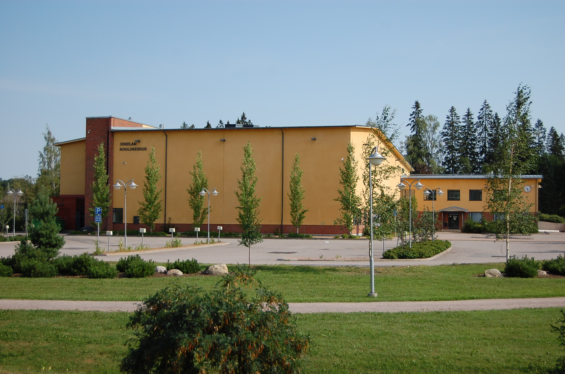 Jokelan koulukeskus Jokela-talon suunnasta.